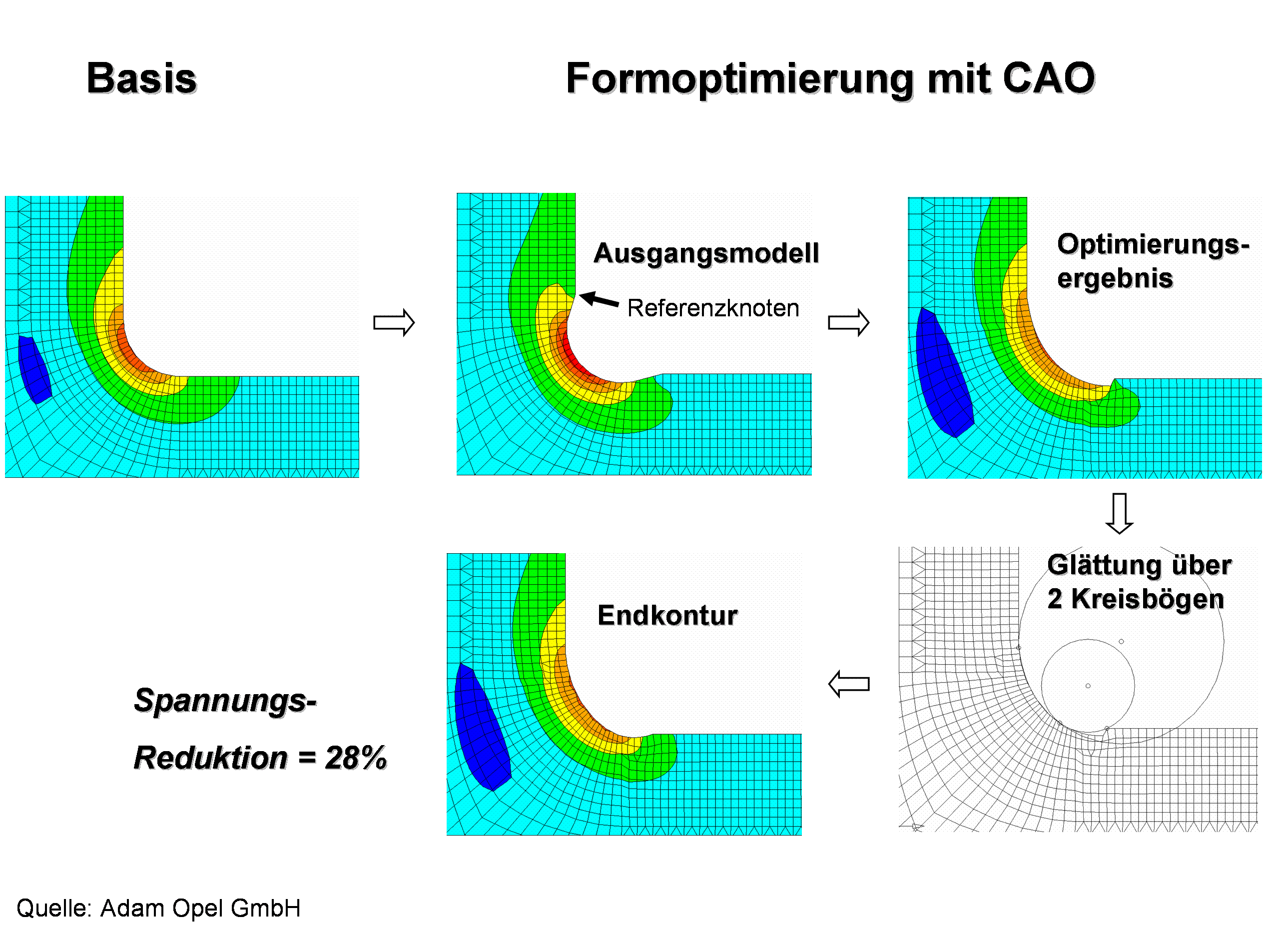 application of CAO, picture 2